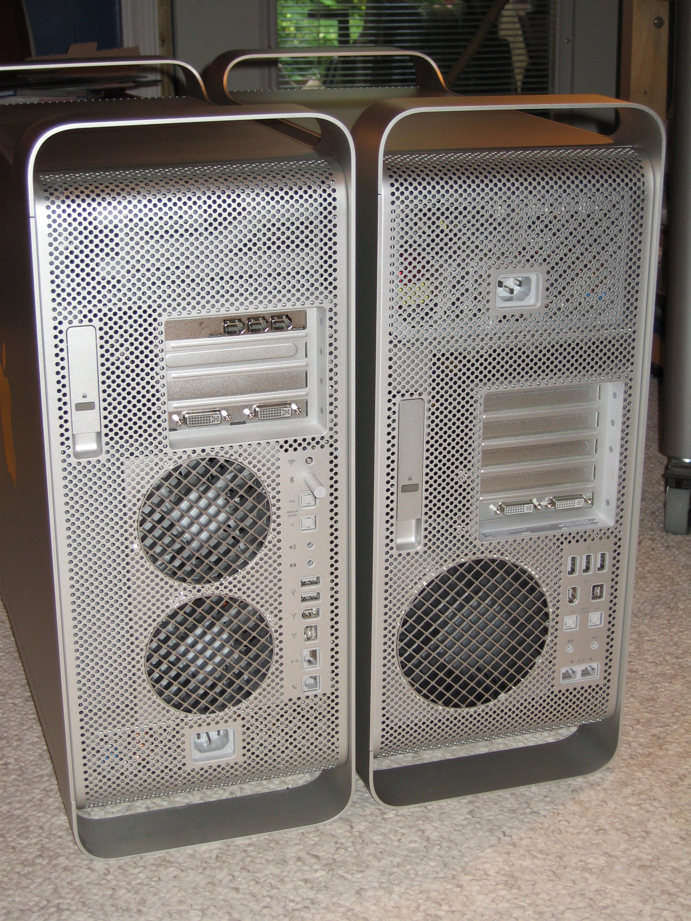 Backside of a Power Mac G5 (left) and a Mac Pro (right)